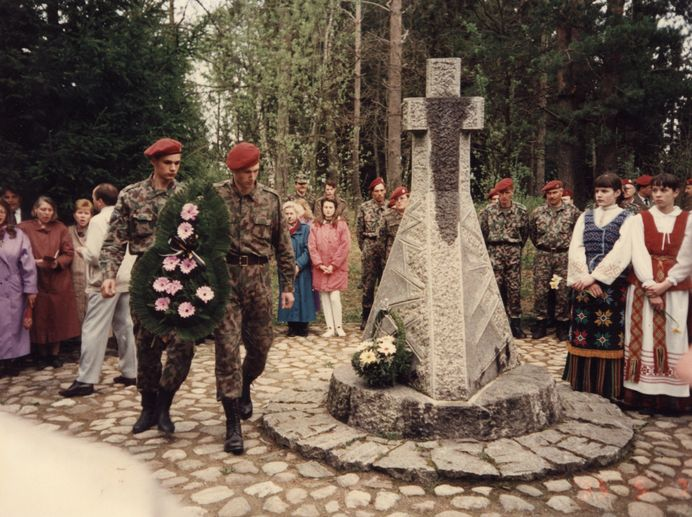 Volunteers lay flowers on the memorial to the Rainiai massacre